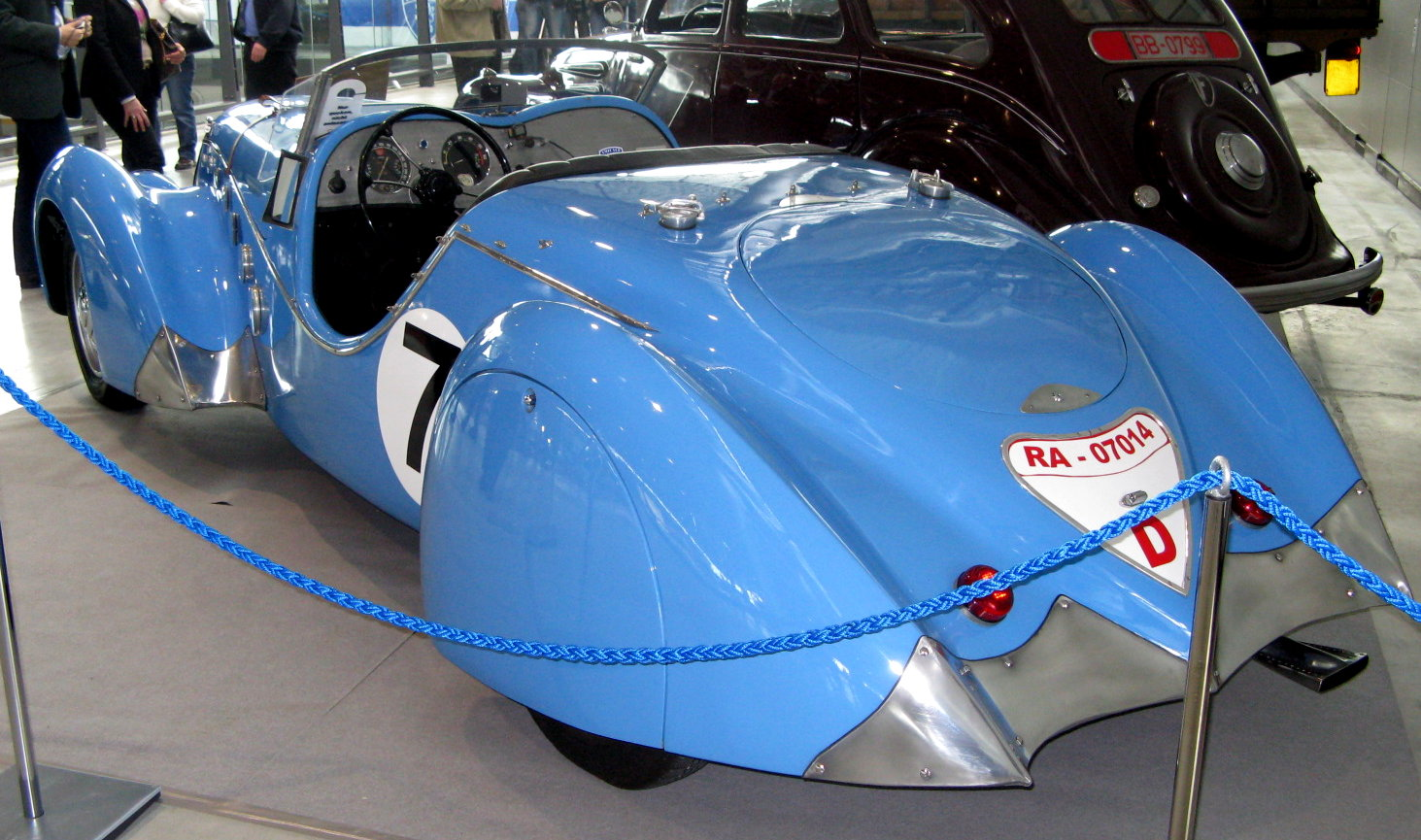 Peugeot 402 DS DarlMat Special Roadster